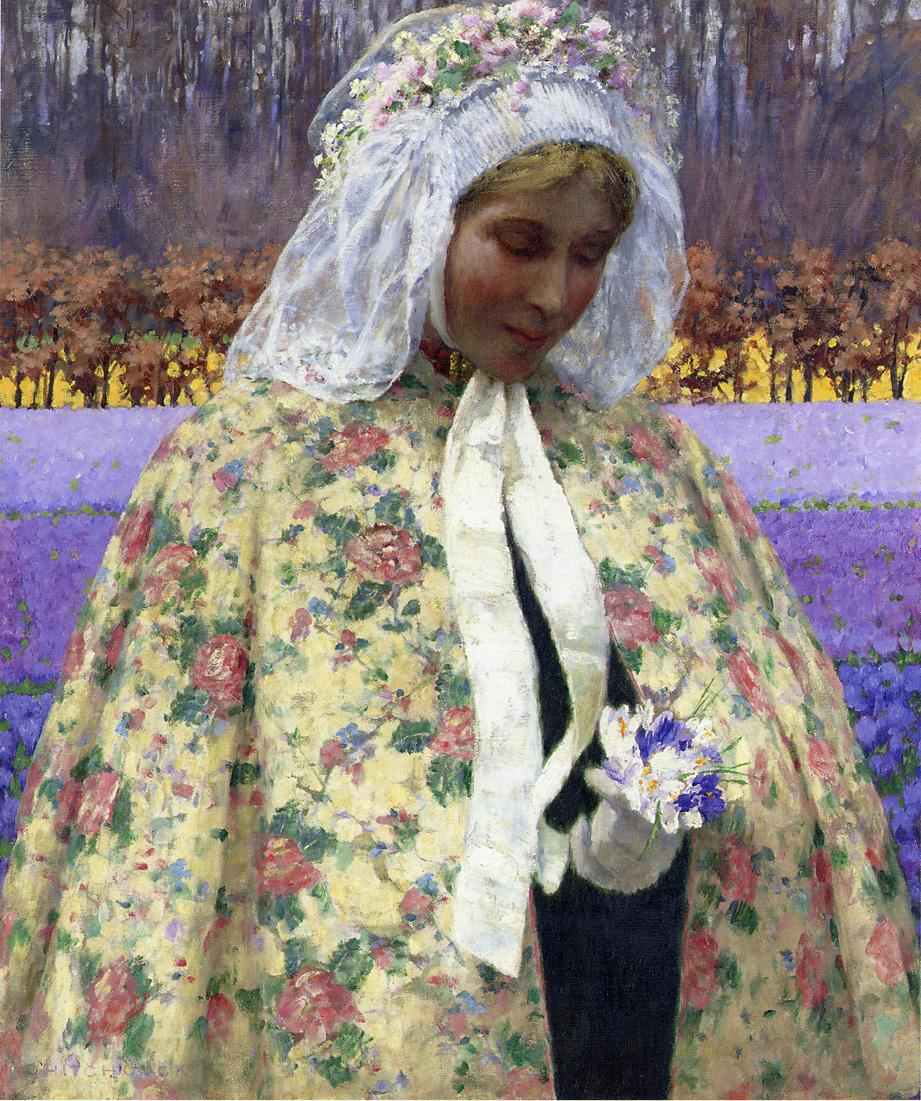 Easter Sunday